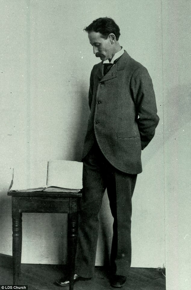 David Whitmer grandson and heir George Schweich pictured with the so-called printer's manuscript of the Book of Mormon